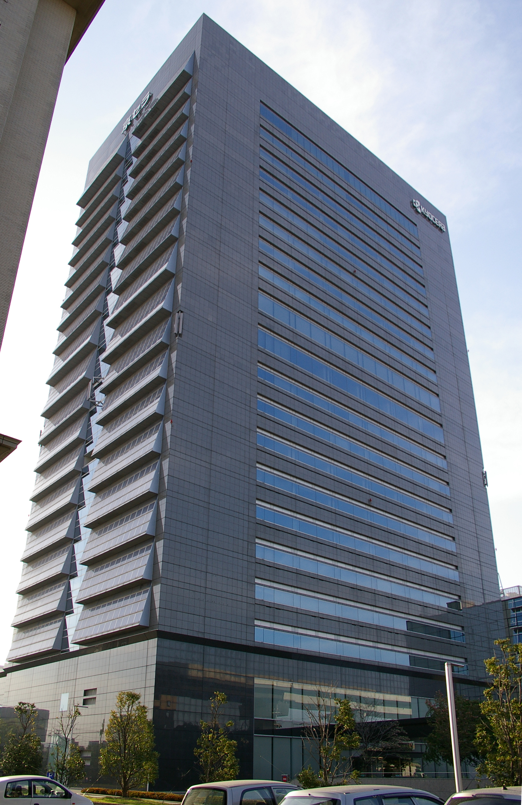 Photograph of headquarters of Kyocera Corporation in Fushimi-ku, Kyoto, Kyoto Prefecture, Japan.